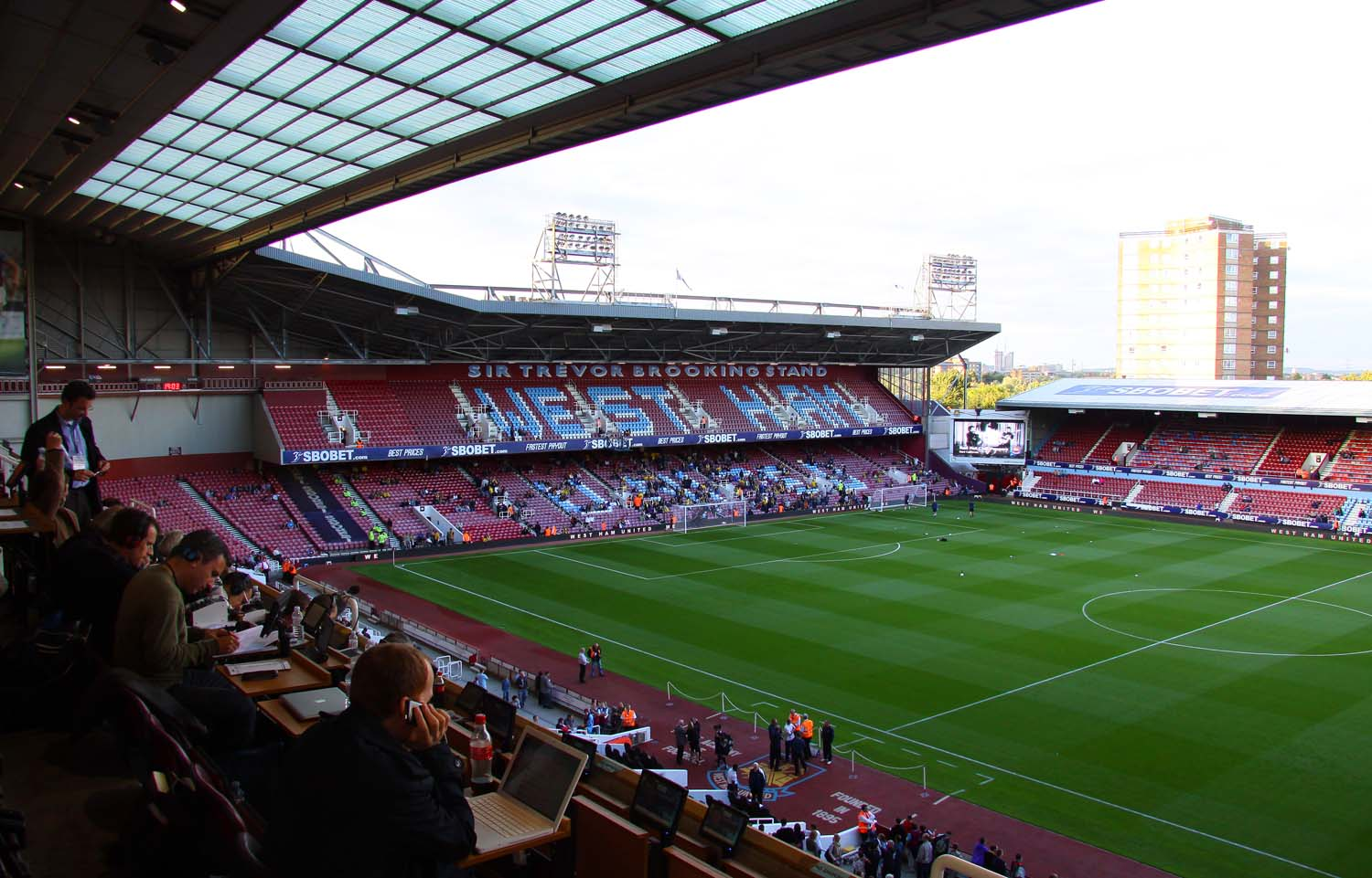 The Sir Trevor Brooking Stand from the press box, near to East Ham, Newham, Great Britain.